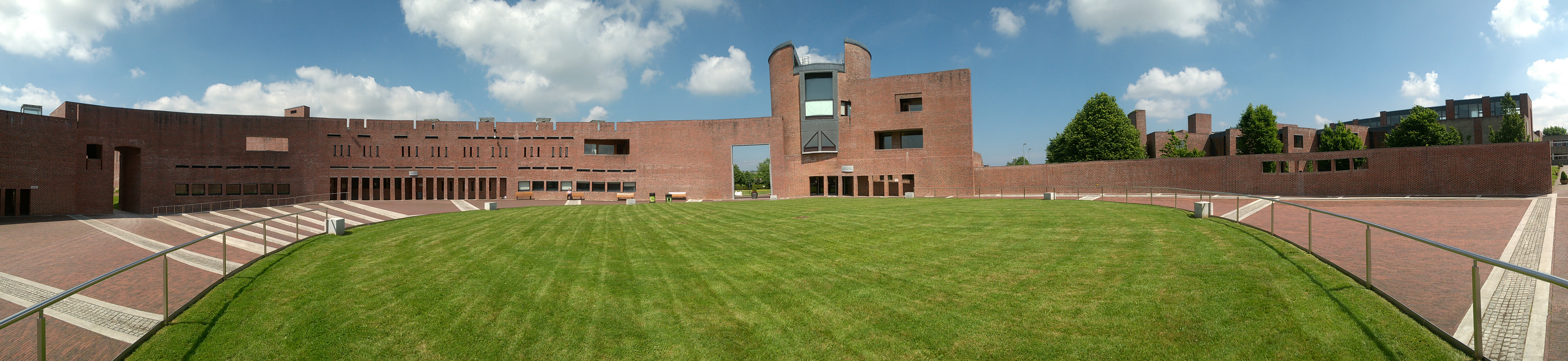 Cork Institute of Technology. Panoramic view of the Courtyard